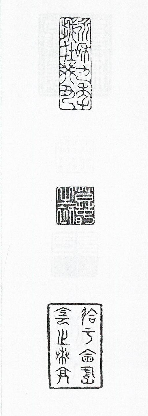 Kawamura Egg Stamp Imprint, from Nakata 1966 , p. 19; Keisho Nakai "Continued complement Japan mark tattle" "engravings of Japan" Yujiro Nakata , ed., Nigensha , 1966, pp. 274-309.